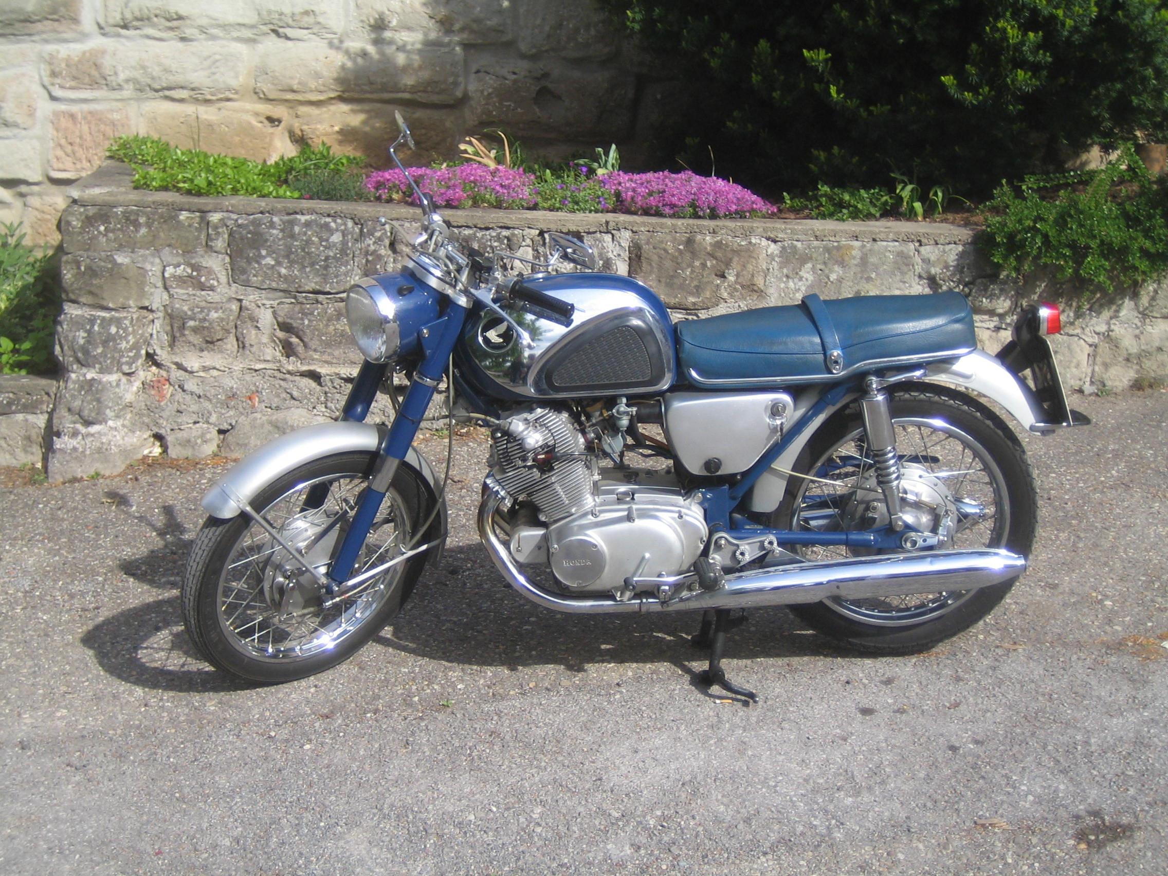 Honda CB72 from 1961 at a german CB92 meeting